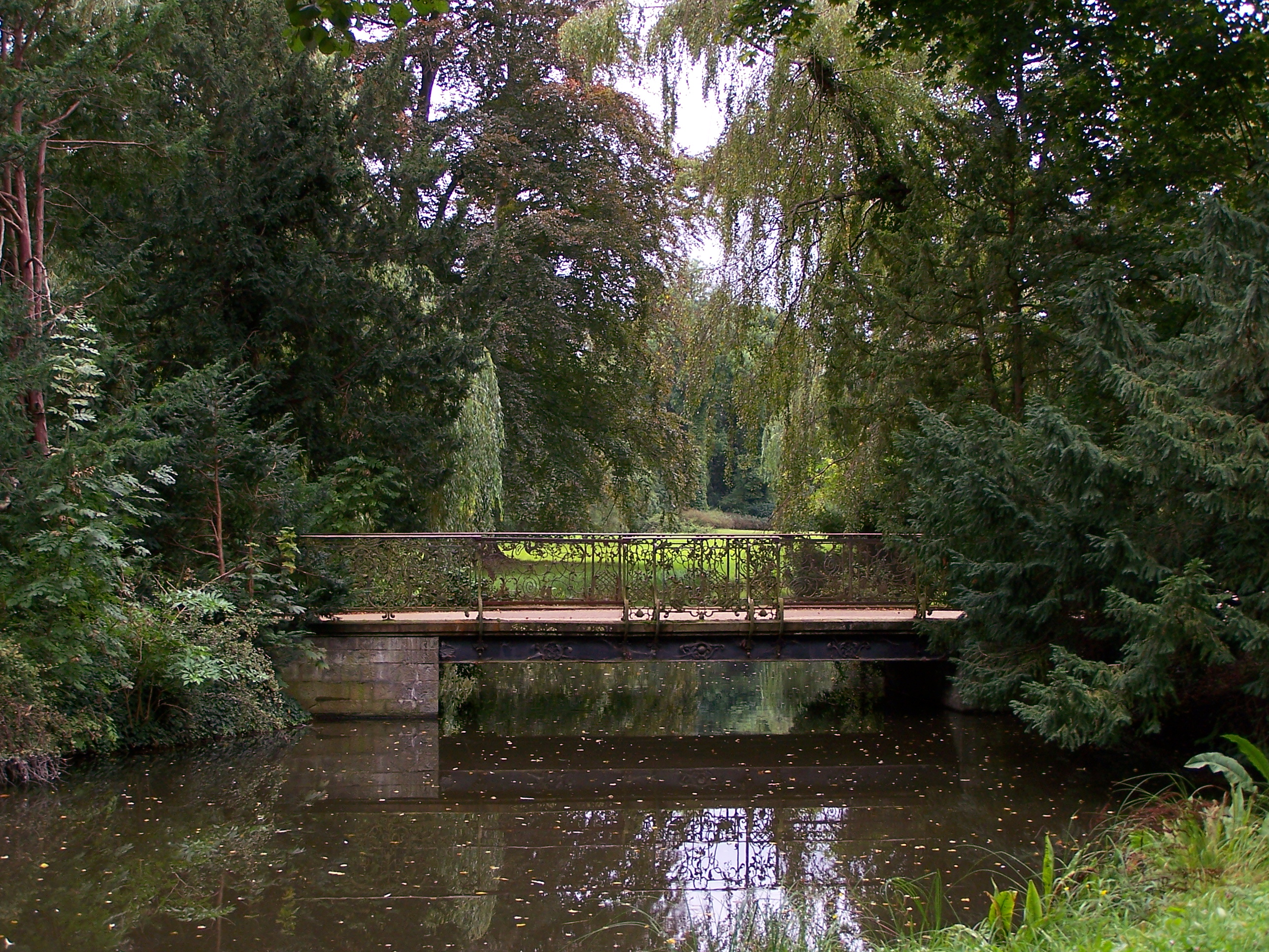 Sanssouci park (Potsdam, Germany).